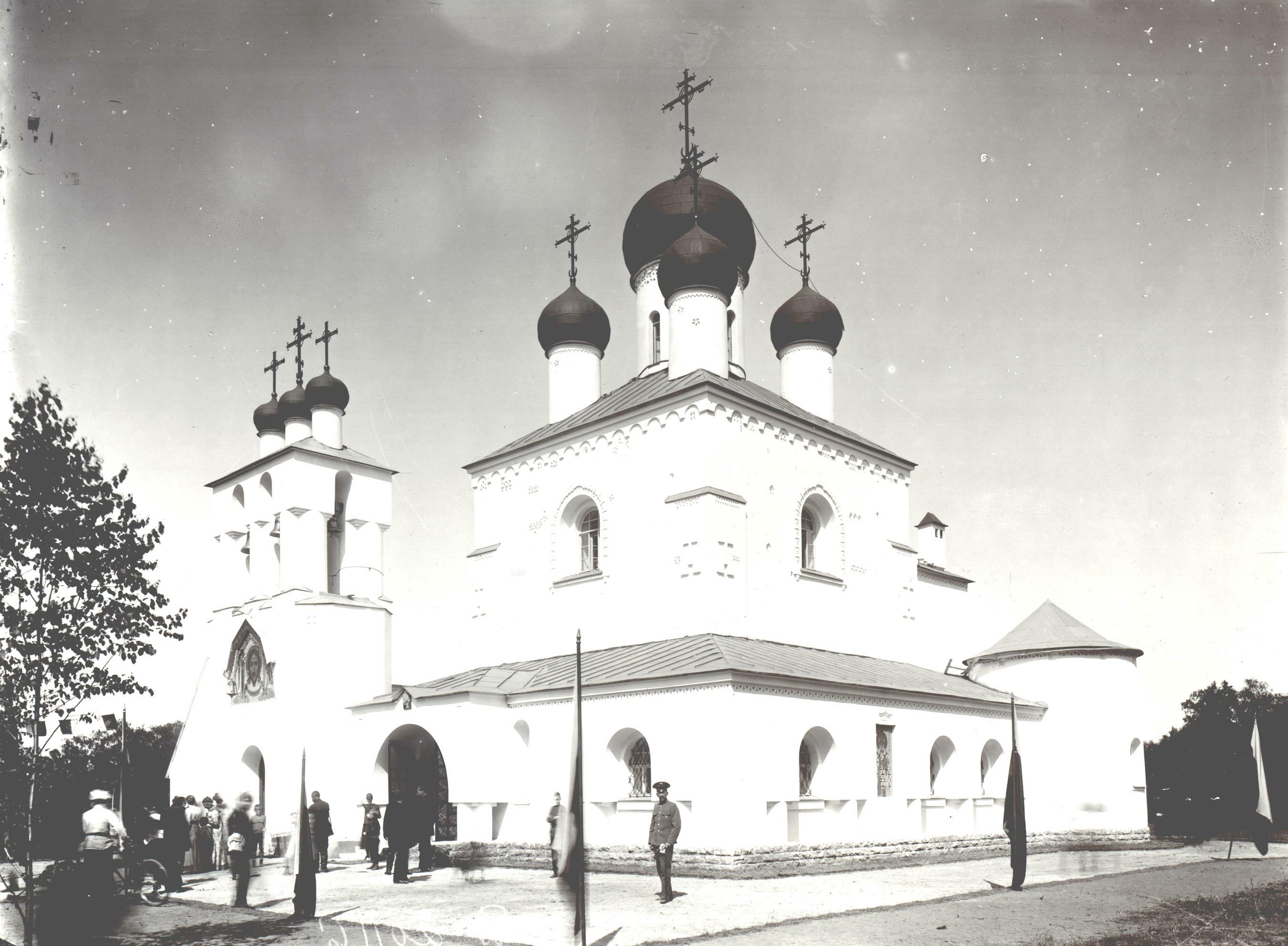 Tiarlevo (Russia)